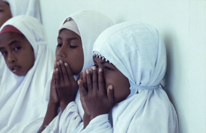 Muslim girls on friday in the mosque, Tulehu